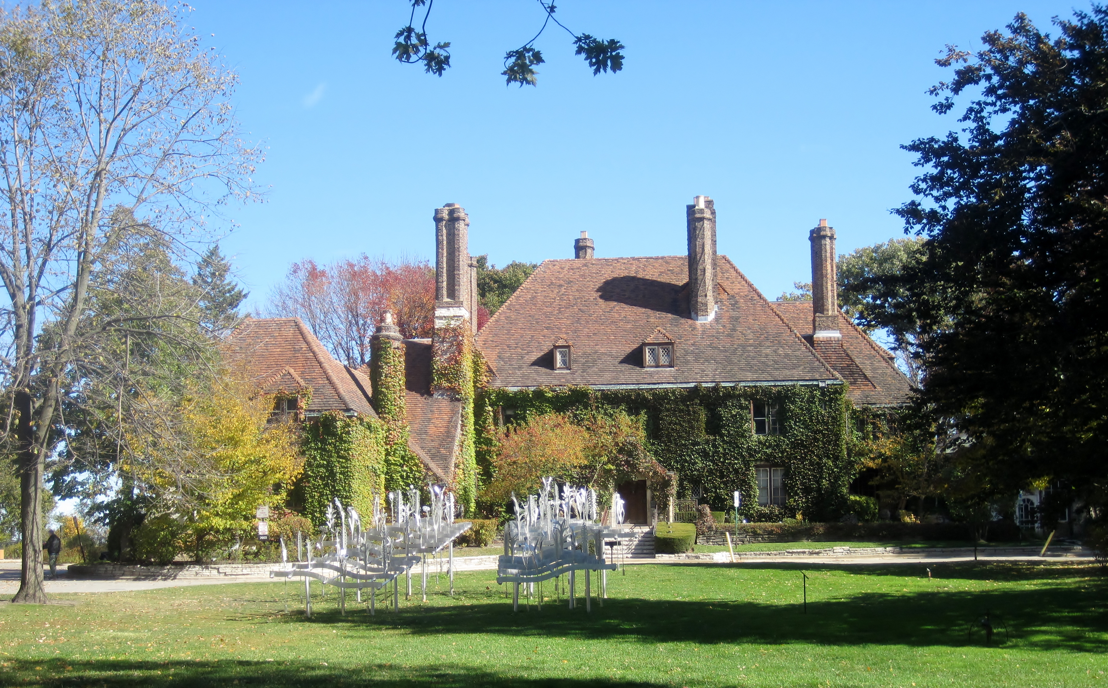 The Harley Clarke Mansion in the Northeast Evanston Historic District (1927). Clarke was president of the Utilities Power & Light Corporation. He had the Wilbur D. Nesbit House moved so that he could build his house. The city is currently seeking bids for purchase. The Pritzker family is one party that has expressed interest. It was the national headquarters of Sigma Chi from 1951-1965. It was the home of the Evanston Art Center, but they recently announced plans to move closer to the downtown area of Evanston.